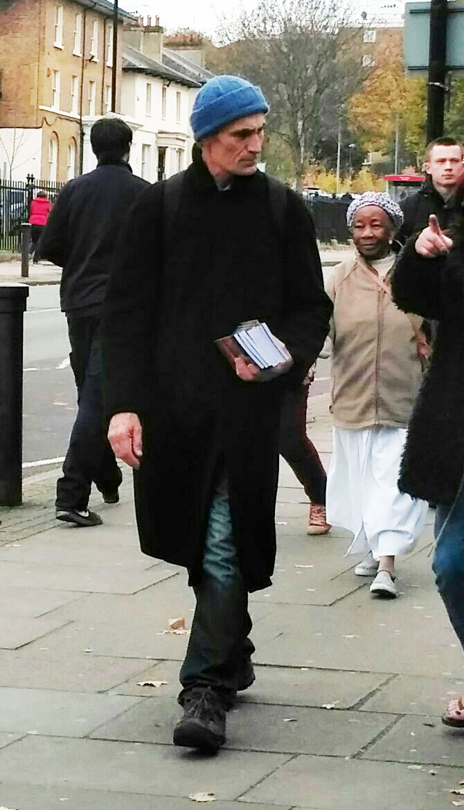 Paul Henry, AKA Bruce, from End Time Survivors, formerly known as Jesus Christians, distributes Not for Everyone by Anonymous outside Kings College Hospital, London, November 9 2017.